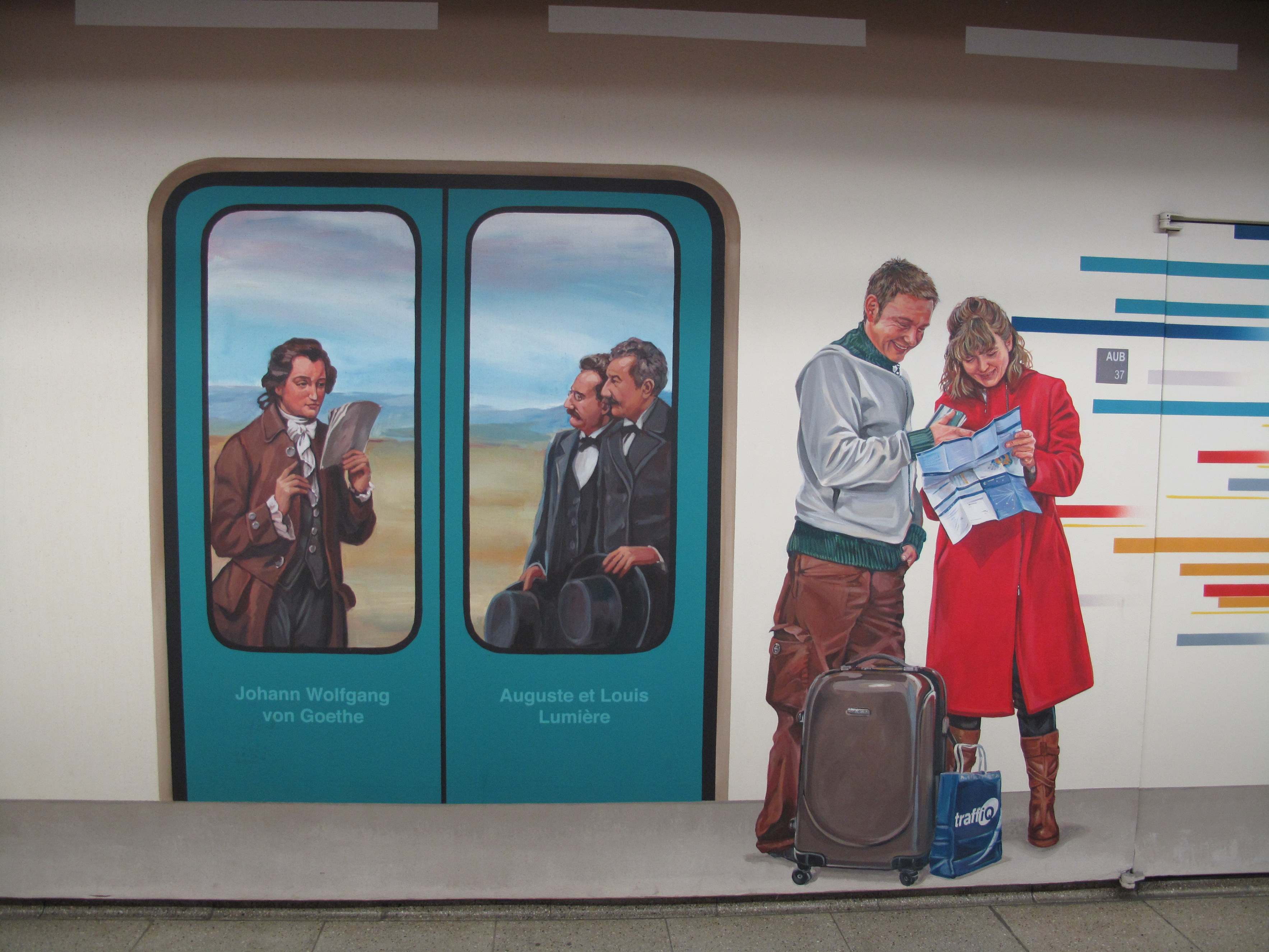 Goethe and the Lumière brothers. Part of the Mural in the metro station Frankfurt (Main) Konstablerwache, Germany, created by the french artist group CitéCréation and her subsidiary CreativeStadt in Potsdam. The Trompe-l'œils, titled „Reise in Raum und Zeit“ (german for: journey through space and time), show different motifs from Lyon and Frankfurt am Main, which are connected by a fictitious transportation. The artwork was unveiled on 11 June 2010 at the occasion of the 50 year anniversary of the town twinning between Frankfurt and Lyon.